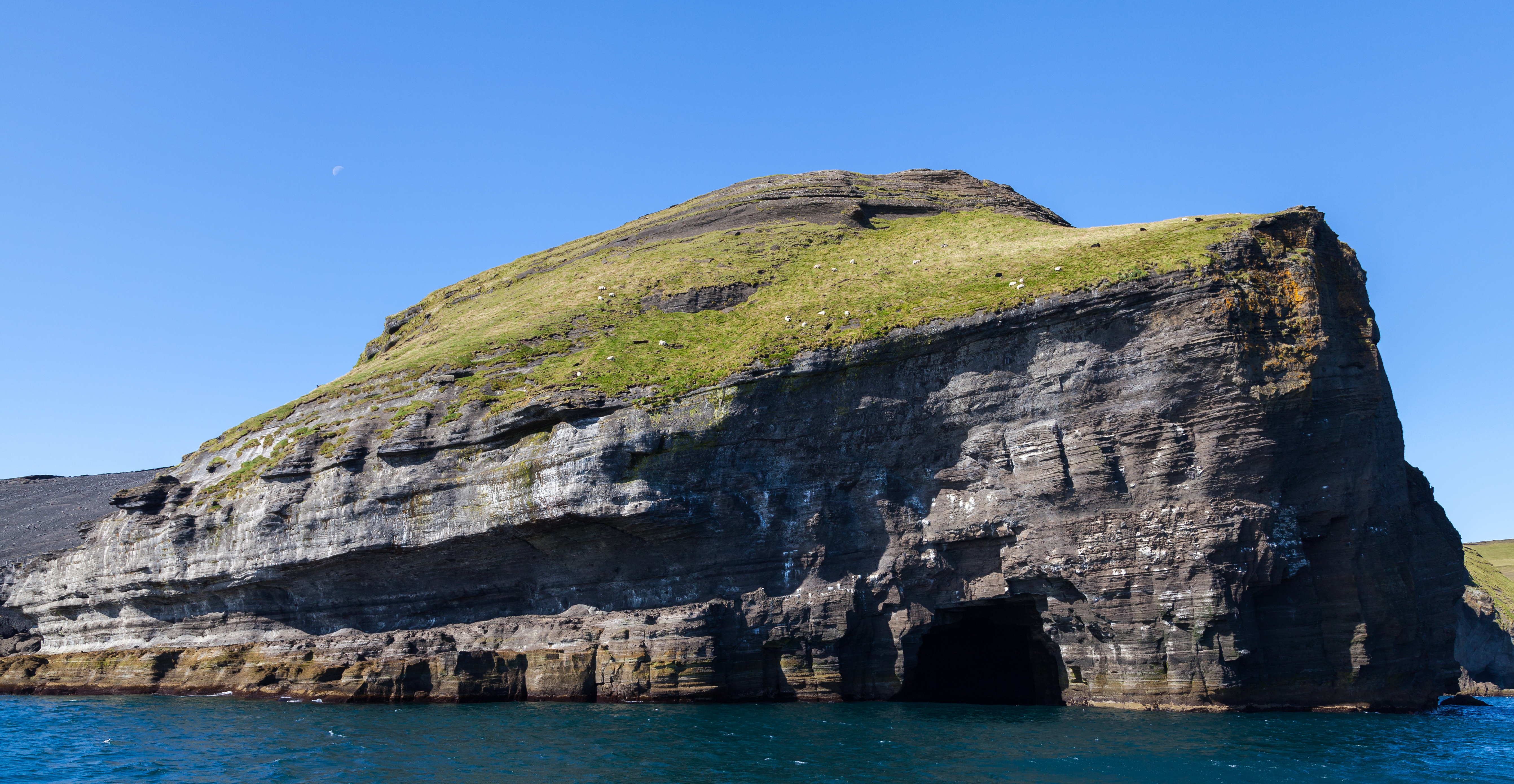 Cliffs of Heimaey, Westman Islands, Suðurland, Iceland